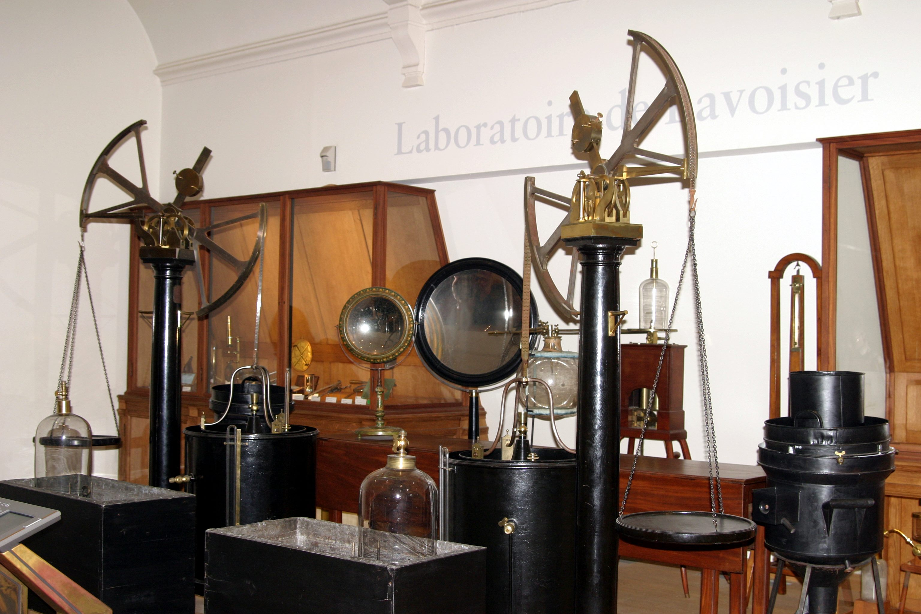 Pneumatic chemistry two gazomèters